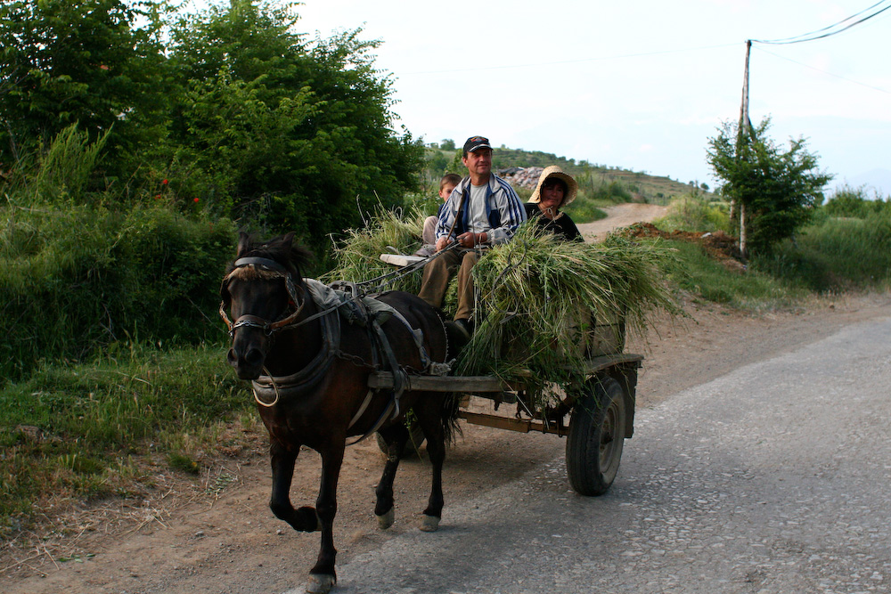 Cart loaded with hay, Albania